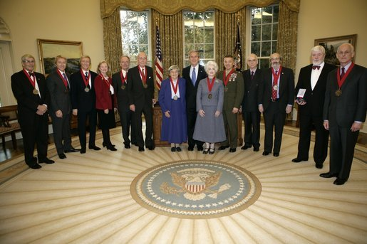 President George W. Bush stands with recipients of the 2005 National Humanities Medals after presentation Thursday, Nov. 10, 2005, in the Oval Office. With the President from left, are: Richard Gilder, history patron; Leigh and Leslie Ken, art historians and appraisers; Mary Ann Glendon, legal scholar; John Lewis Gaddis, historian; Walter Berns, historian; Eva Brann, college professor; Judith Martin, columnist; Col. Matthew Bogdanos, Assistant District Attorney; Bruce Cole, NEH Chairman; Alan Kors, historian; Theodore Crackel, editor, and Lewis Lehrman, history patron. White House photo by Eric Draper.